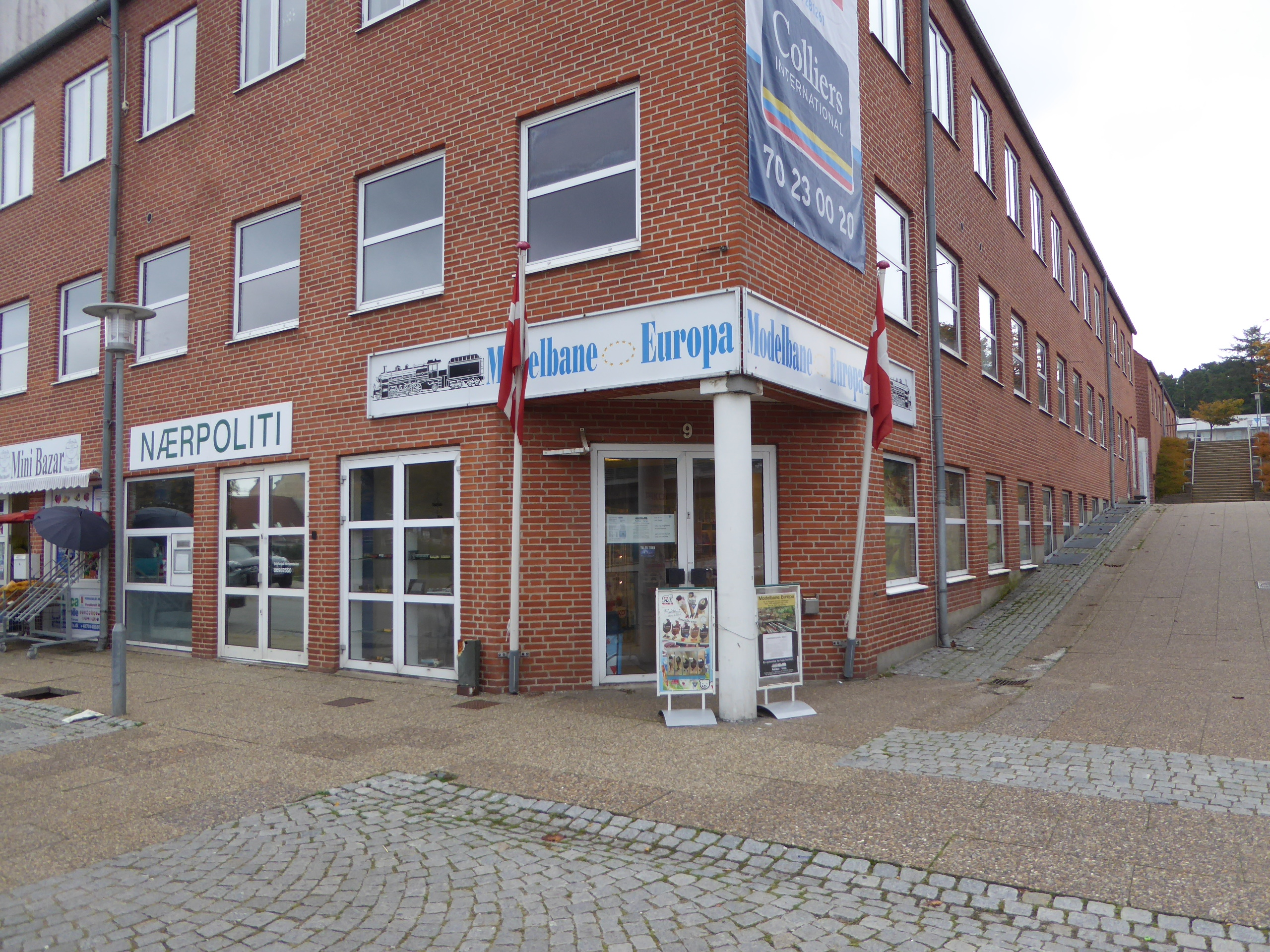 The entrance to the model railway exhibition Modelbane Europa in Hadsten in Denmark.